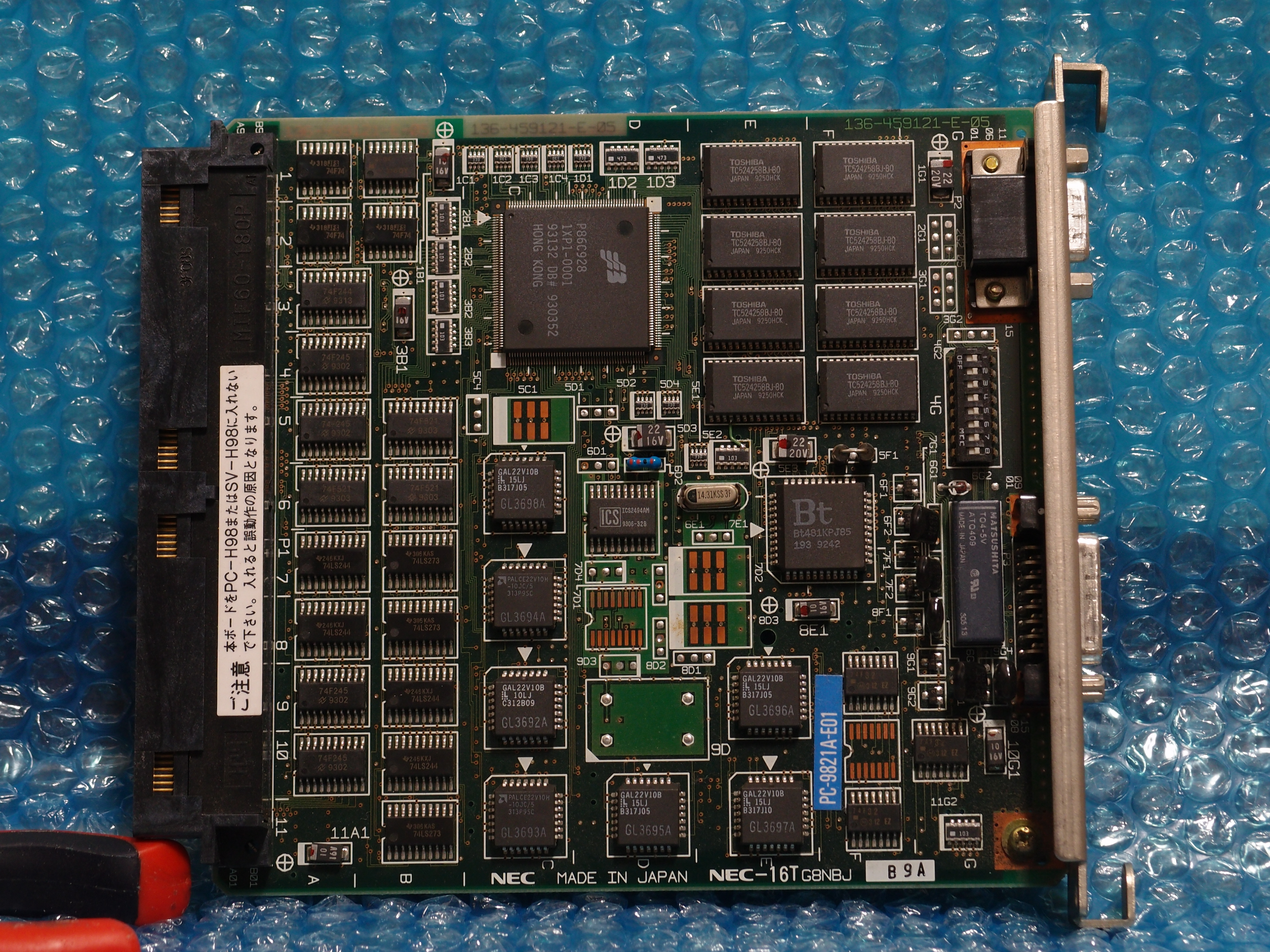 Top view of NEC PC-9821A-E01 Window Accelerator Board